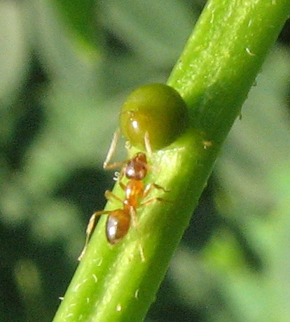 Crazy ant, Nylanderia flavipes, visiting extrafloral nectaries of Senna, possibly Senna marilandica. Size: 2 mm. Pennypack Ecological Restoration Trust, Montgomery County, Pennsylvania, USA. 40.1420° N, 75.0830° W.